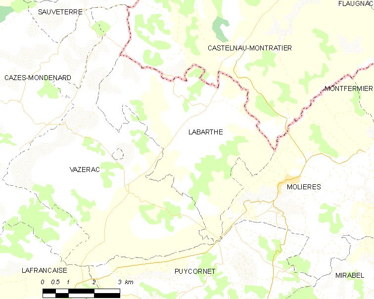 Map of French municipality Labarthe